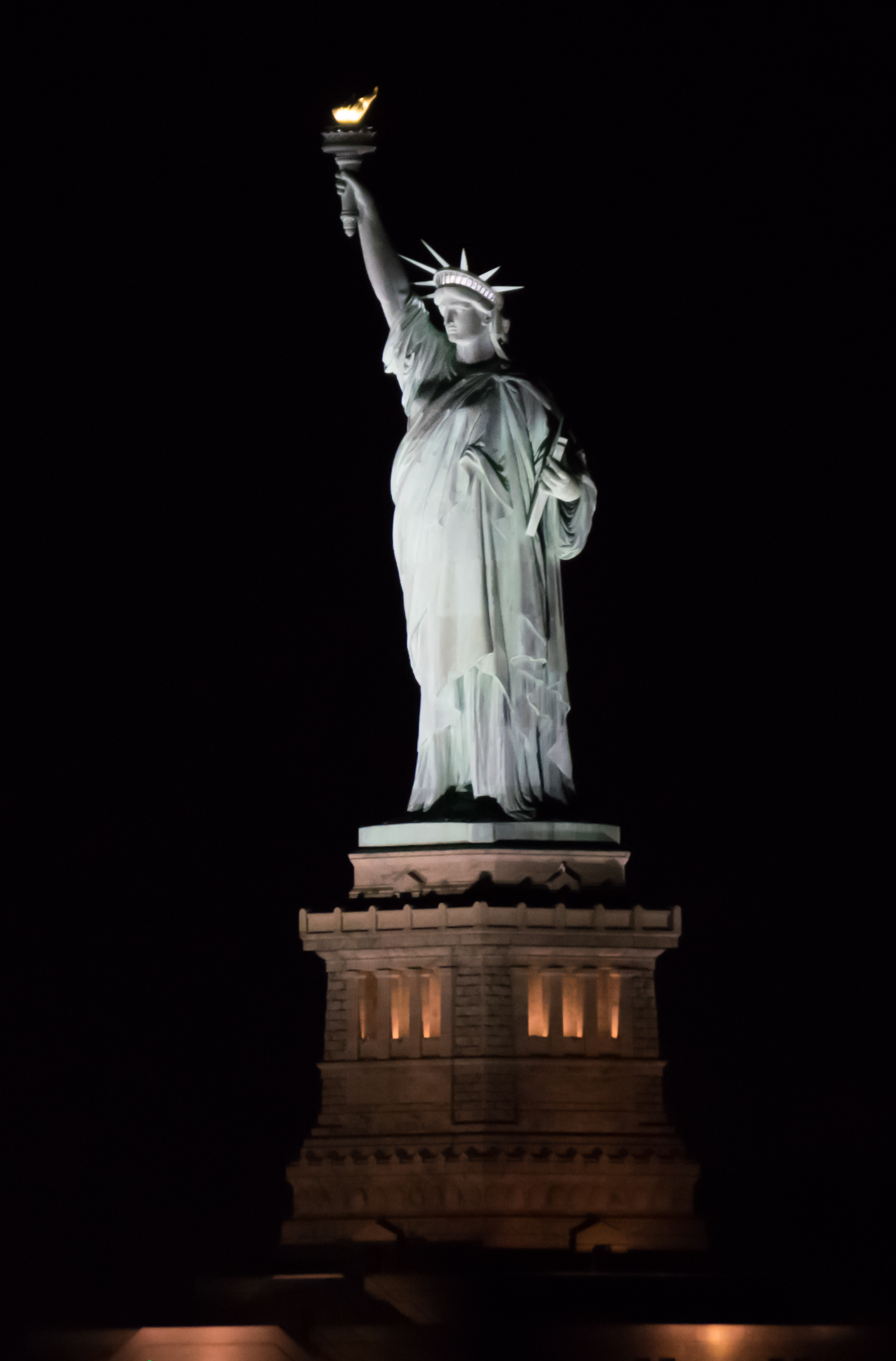 The Statue of Liberty at night, seen from the Staten Island Ferry (New York City, United States).